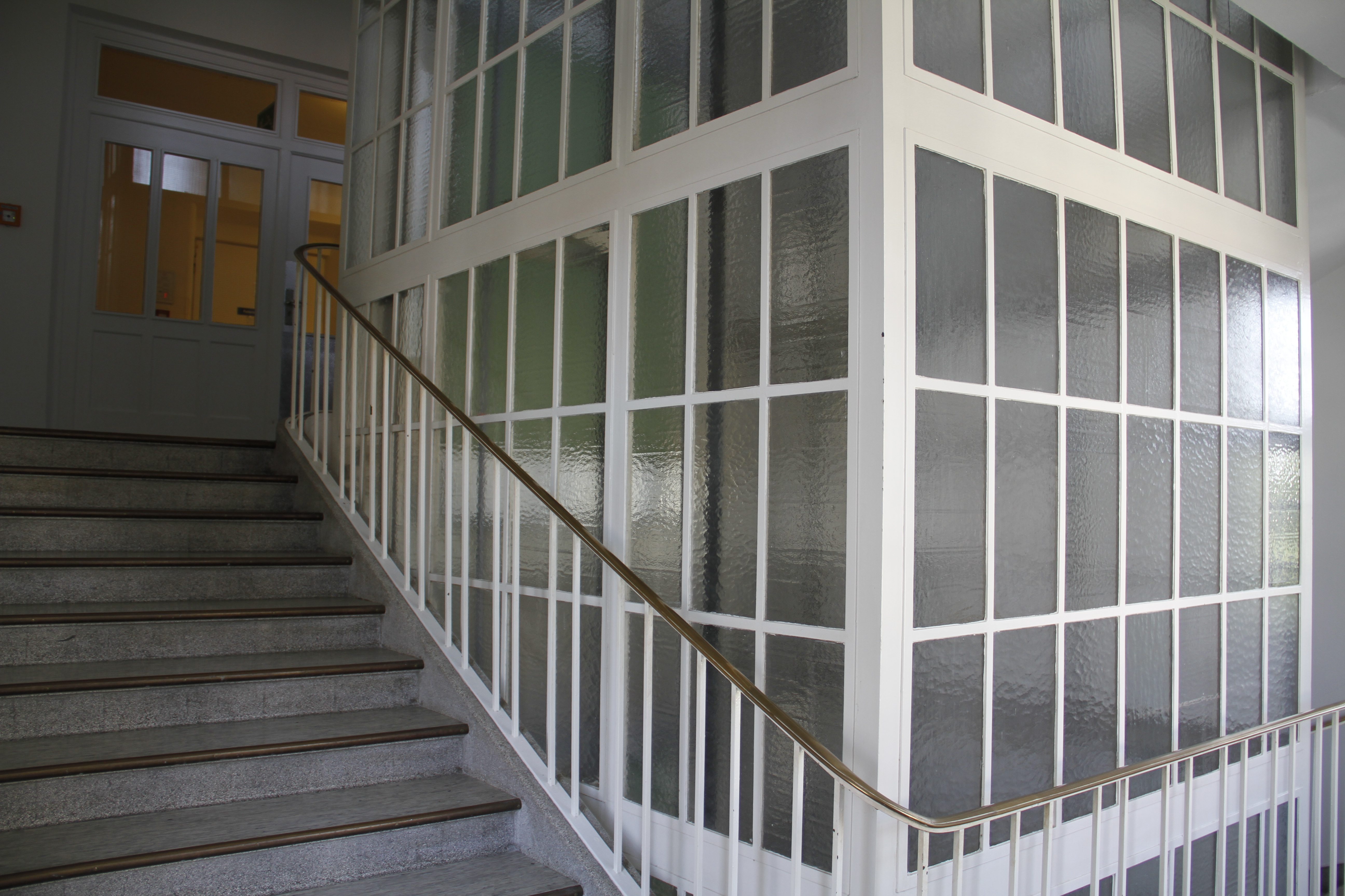 Hospital Thalkirchner Strasse, Munich, German. Build in 1926-28 by Richard Schachner and Hans Grässel. Staircase with windowed liftwell